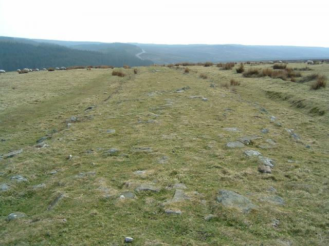 Wade's Causeway Roman road running across Wheeldale moor. This View looking south with the modern road through Cropton Forest following the course of the Roman road in the distance.